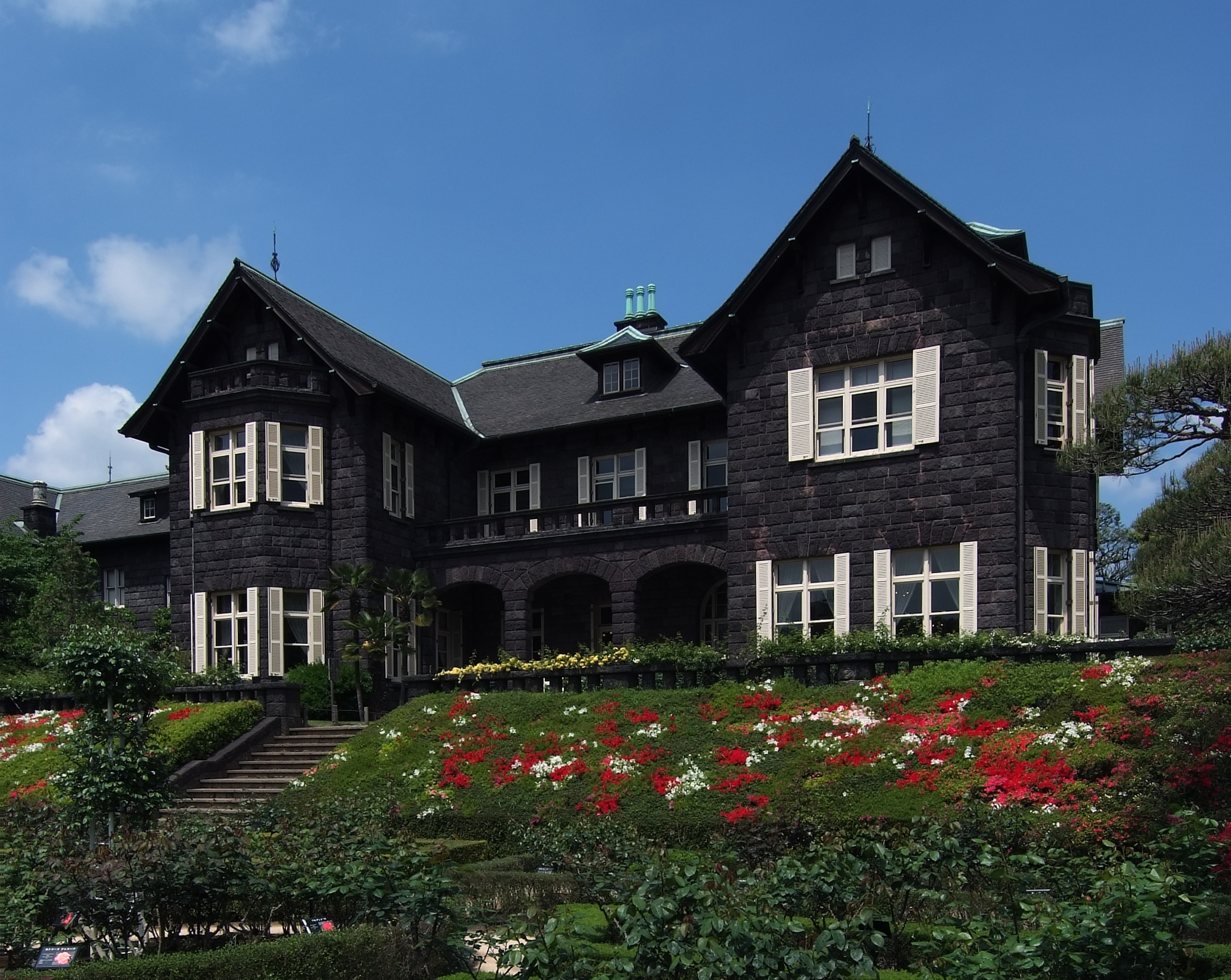 Kyu-Furukawa Tei (House), at Kita-ku Tokyo Japan, design by Josiah Conder in 1917.